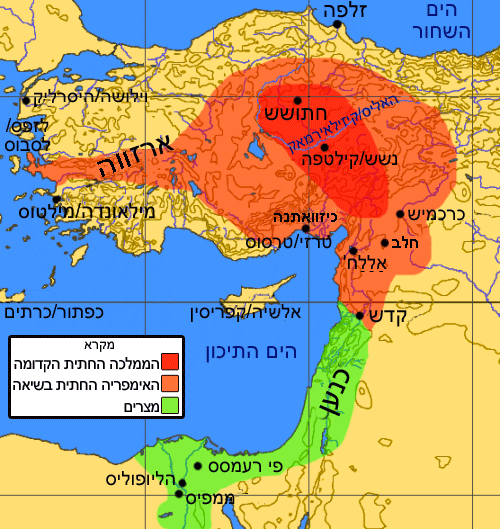 The maximal extent of the Hittite Empire ca. 1300 BC is shown in orange, the Egyptian sphere of influence in green. The approximate extent of the Hittite Old Kingdom under Hantili I (ca. 1590 BC) is shown in red.